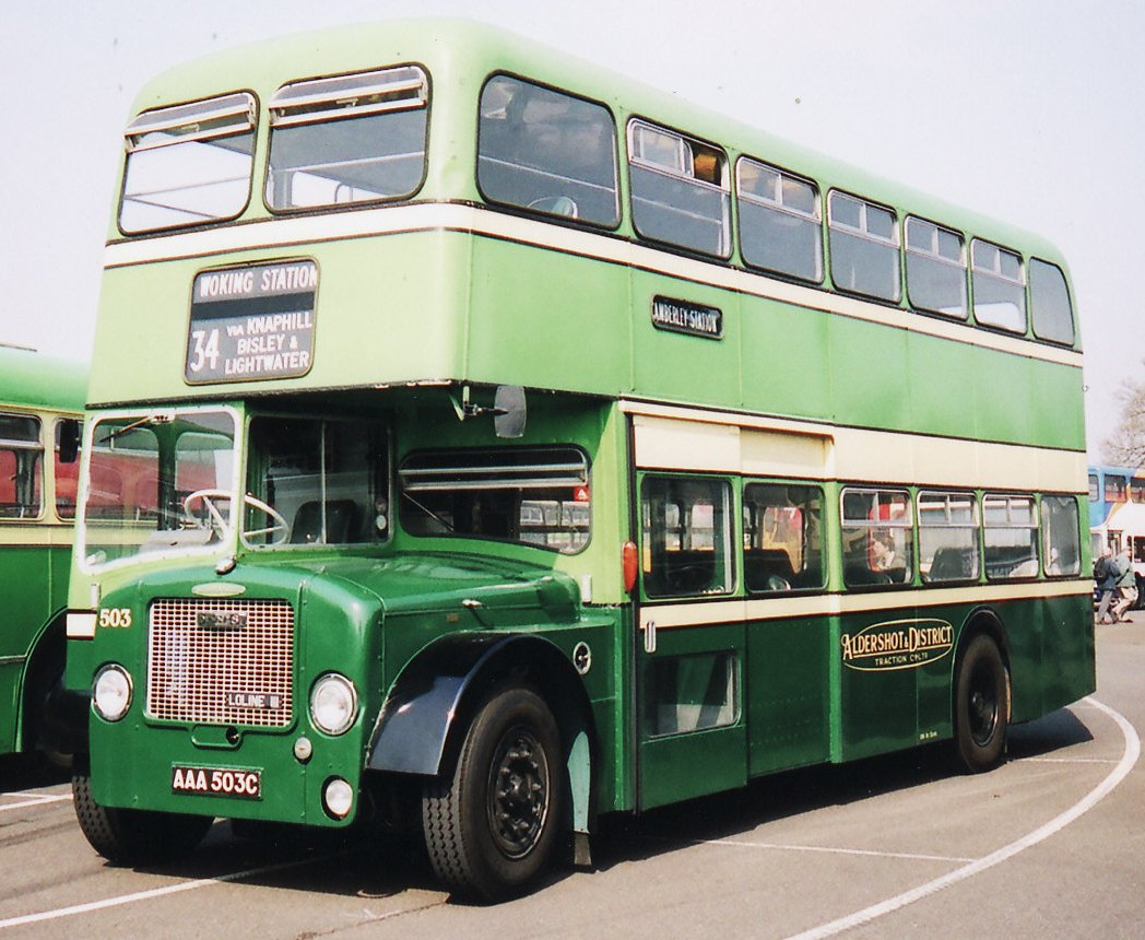 This is a photo taken at the 2007 Cobham bus museum rally held at Longcross test track, of a preserved Aldershot and District Traction bus.